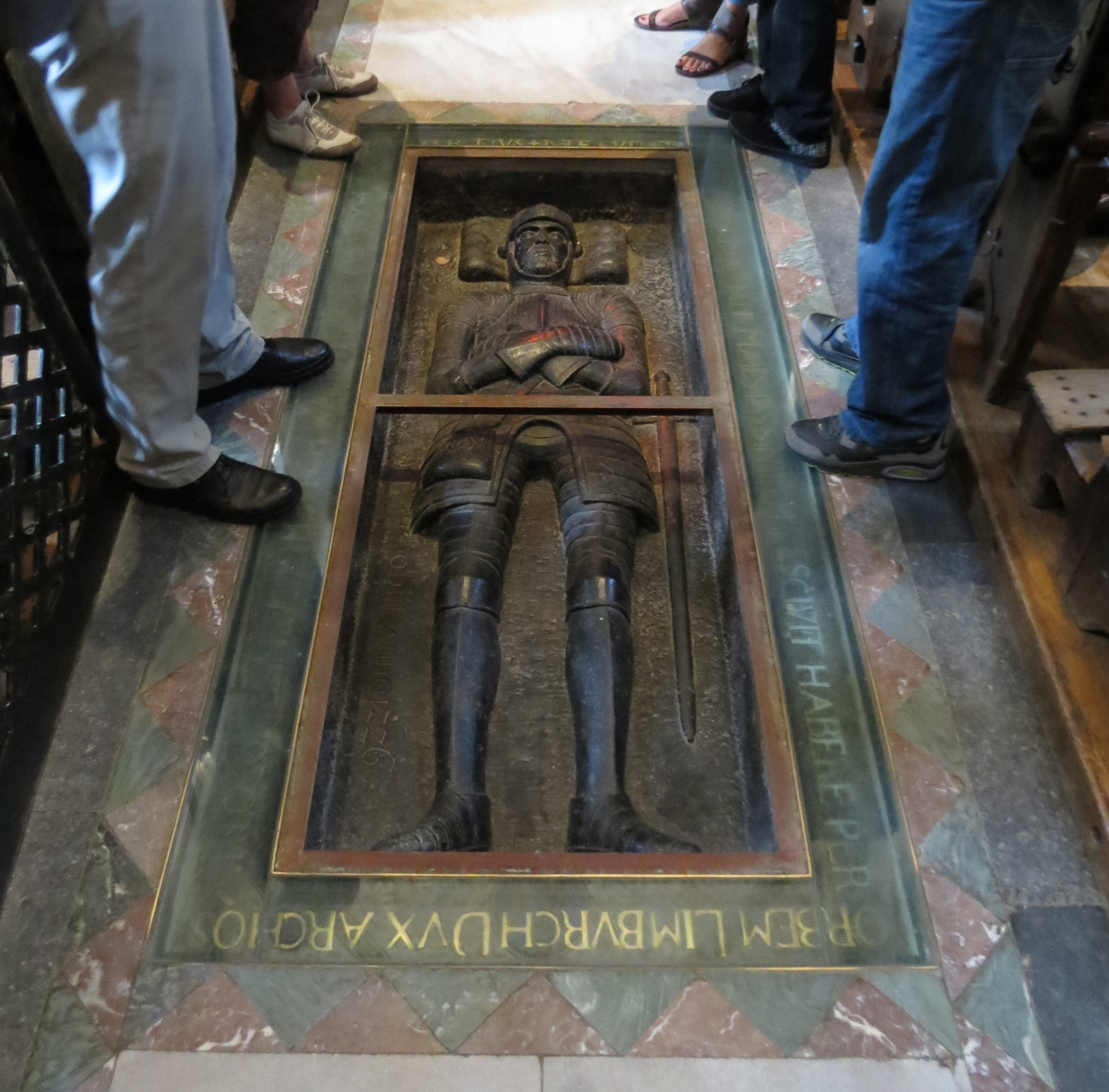 Grave of Walram III, duke of Limburg, in Rolduc Abbey, Kerkrade, The Netherlands